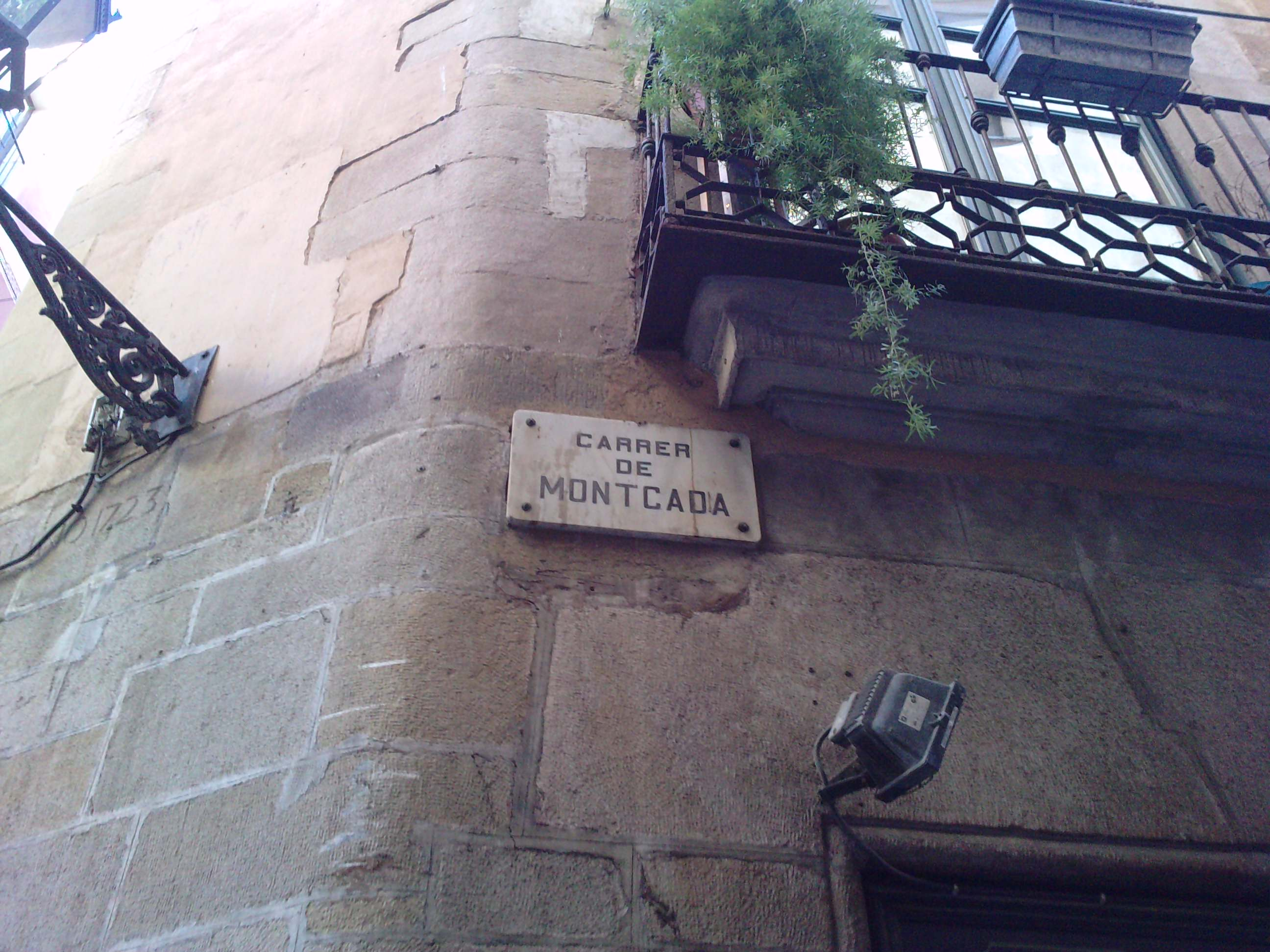 Street sign of Carrer Montcada